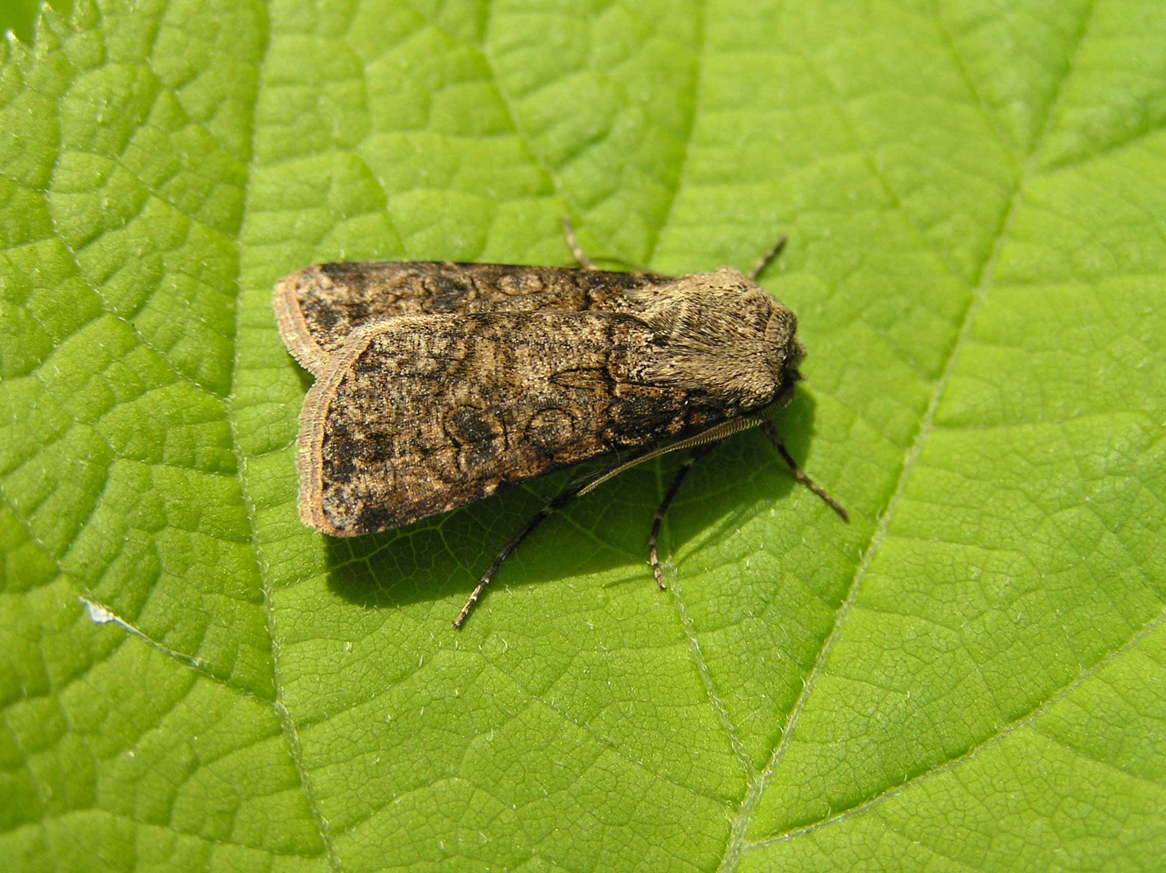 Agrotis segetum (Goes, the Netherlands)